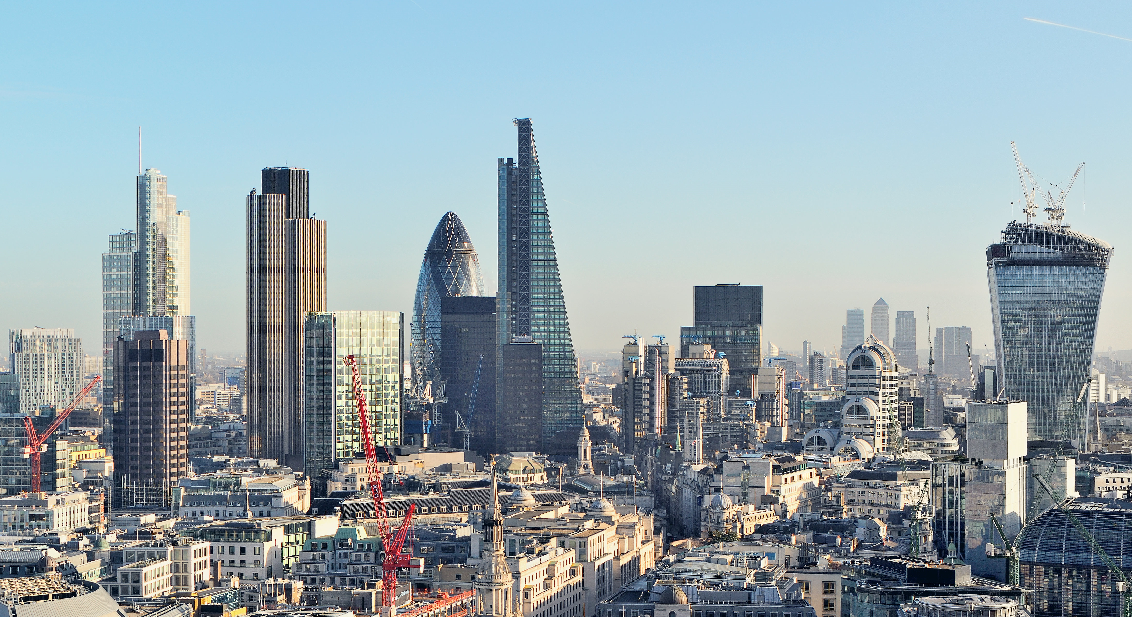 The City of London, United Kingdom.